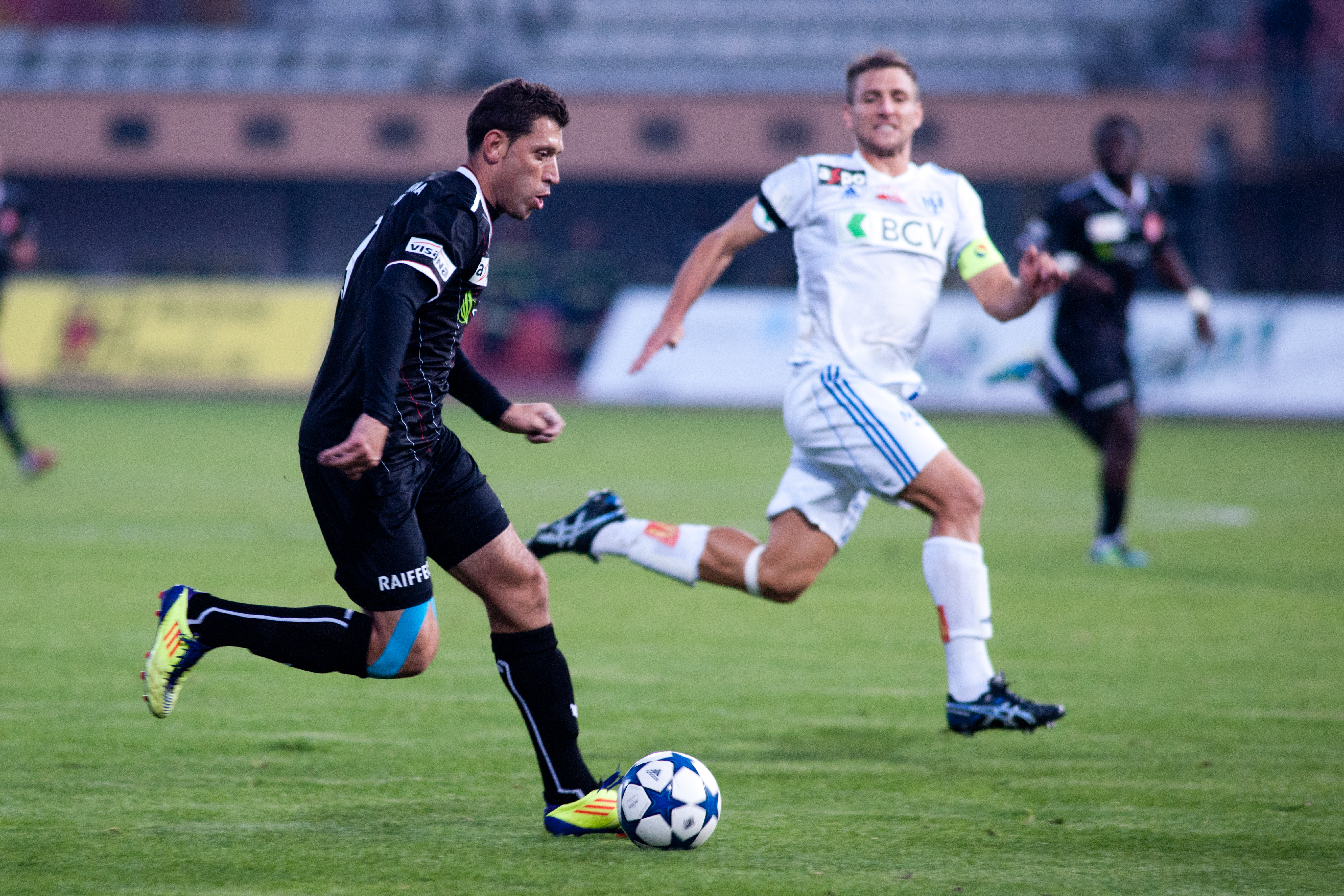 The making of this document was supported by Wikimedia CH. (Submit your project!) For all the files concerned, please see the category Supported by Wikimedia CH. Lausanne Sport vs. FC Thun - 22.10.2011